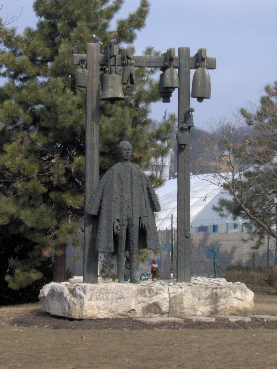 Statue of famous Hungarian composer and pianist, Béla Bartók. Sculptor: Somogyi József (1916–1993) in 1981